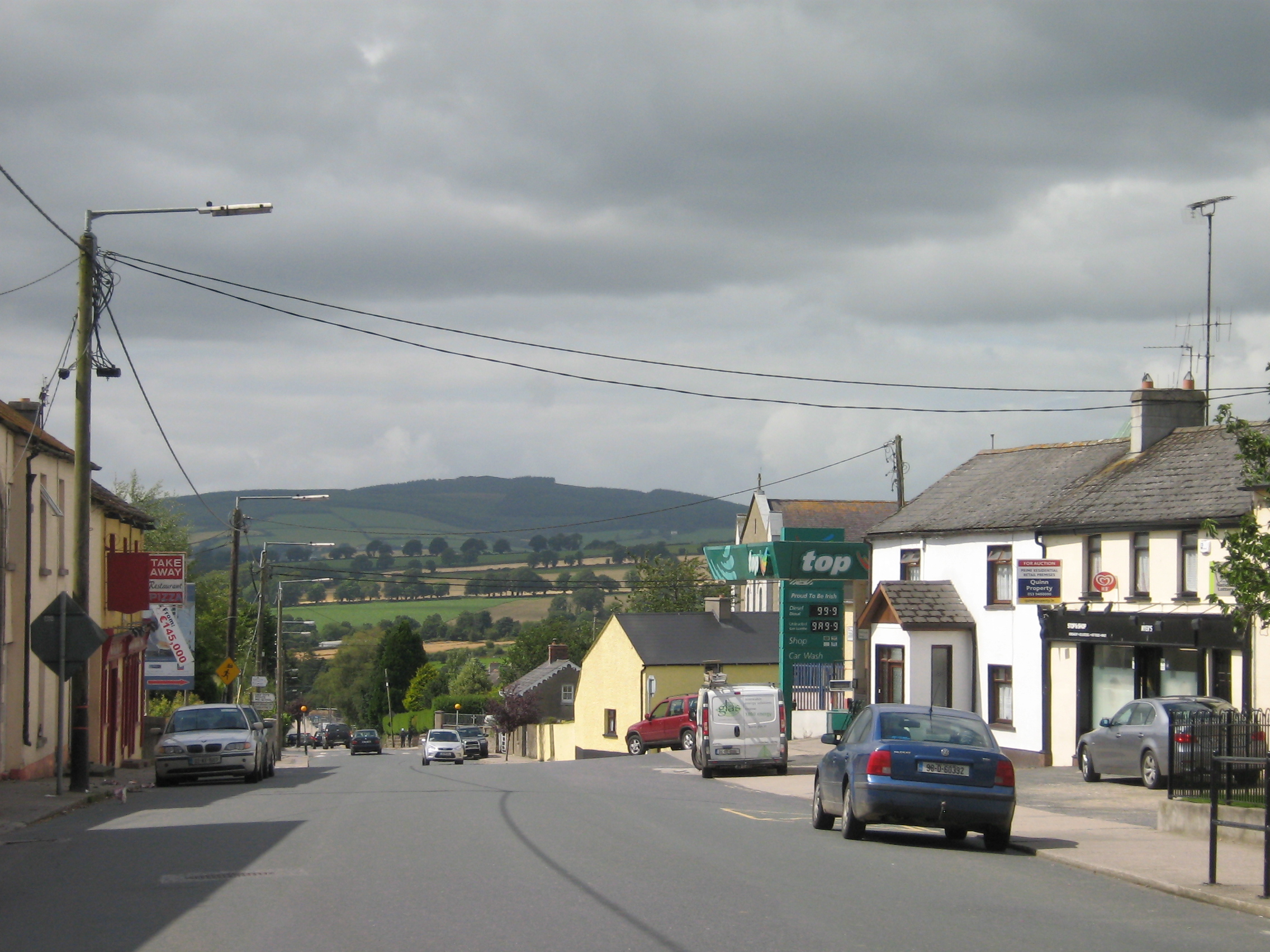 Mainstreet of Carnew, County Wicklow